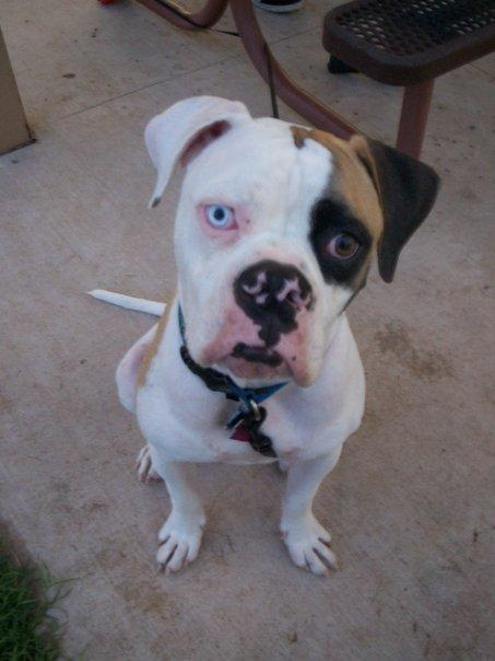 An American bulldog named sarge.